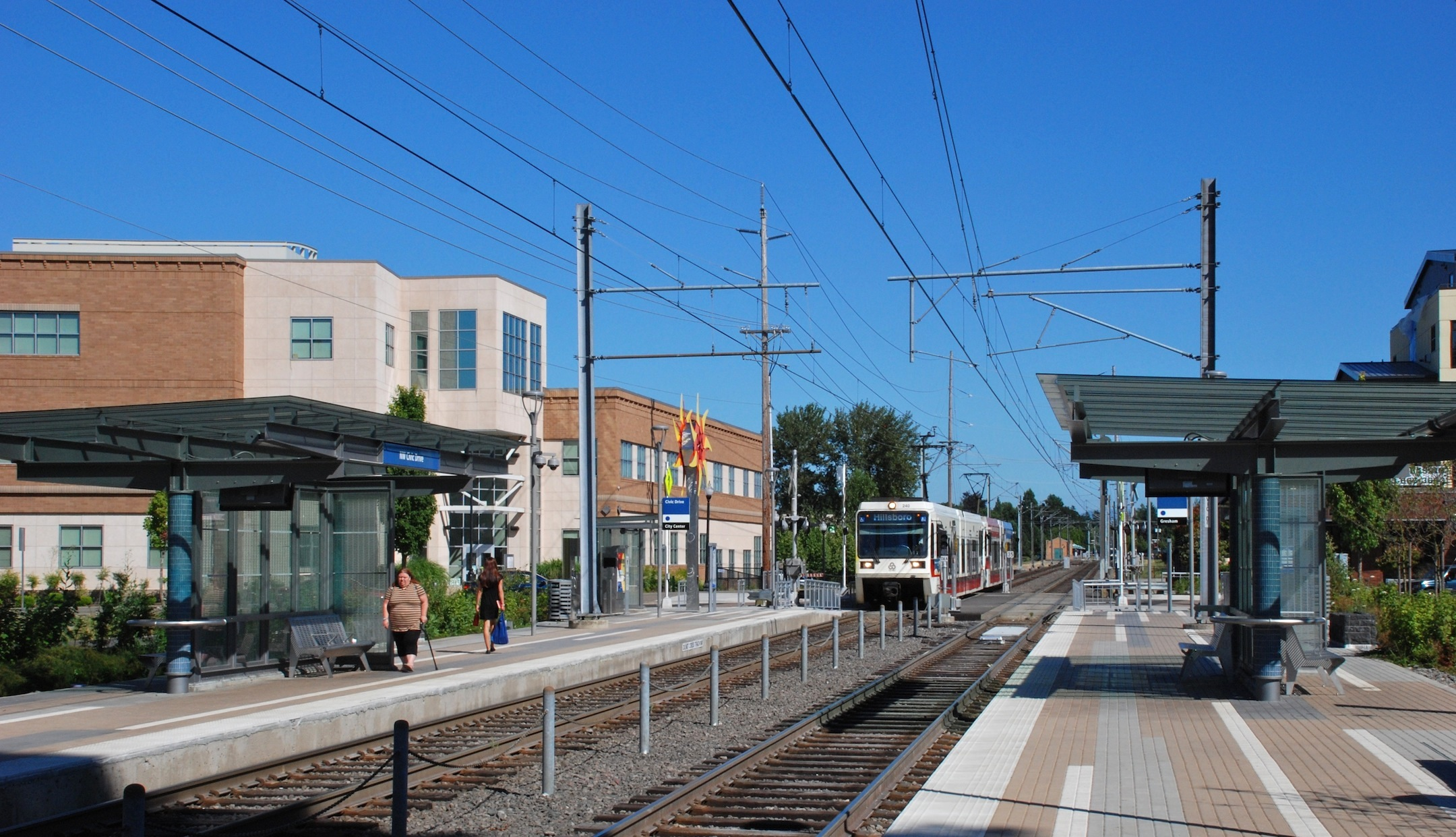 Civic Drive MAX station, with a westbound train arriving.